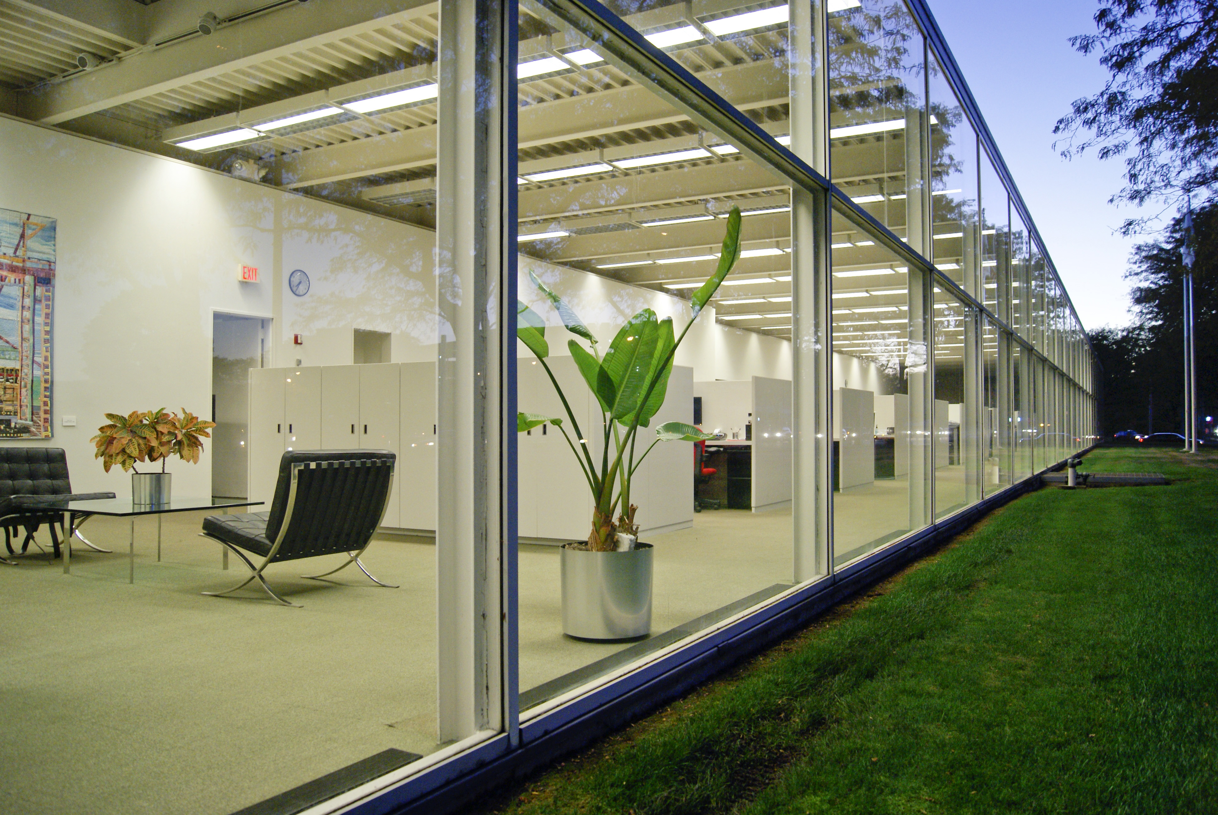 Myron Goldsmith, architect National Historic Landmark